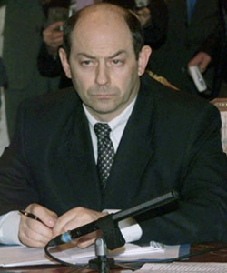 Vladimir Rushailo